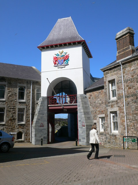 Council Offices, Caernarfon Arched entrance to the Council Chambers, off Shirehall Street.